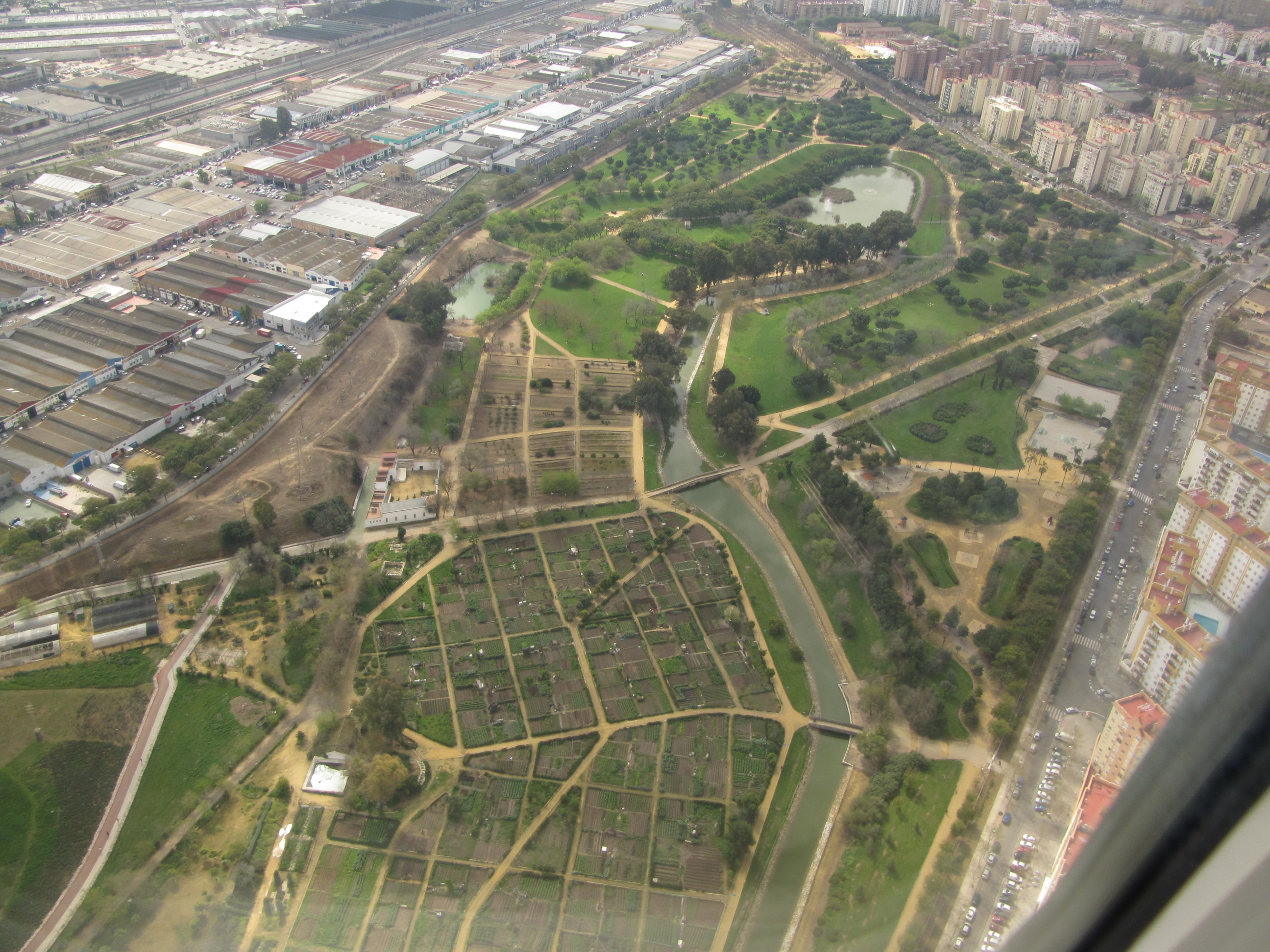 Parque Miraflores (Sevilla)